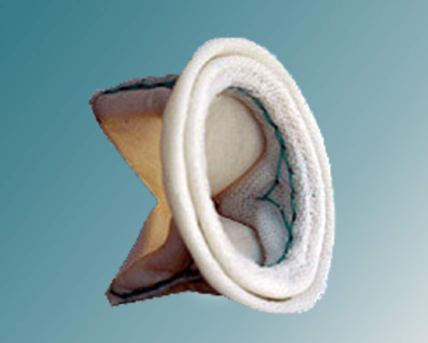 Biological artificial heart valve